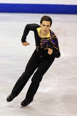 Stephen Carriere at the 2009 Skate Canada International.